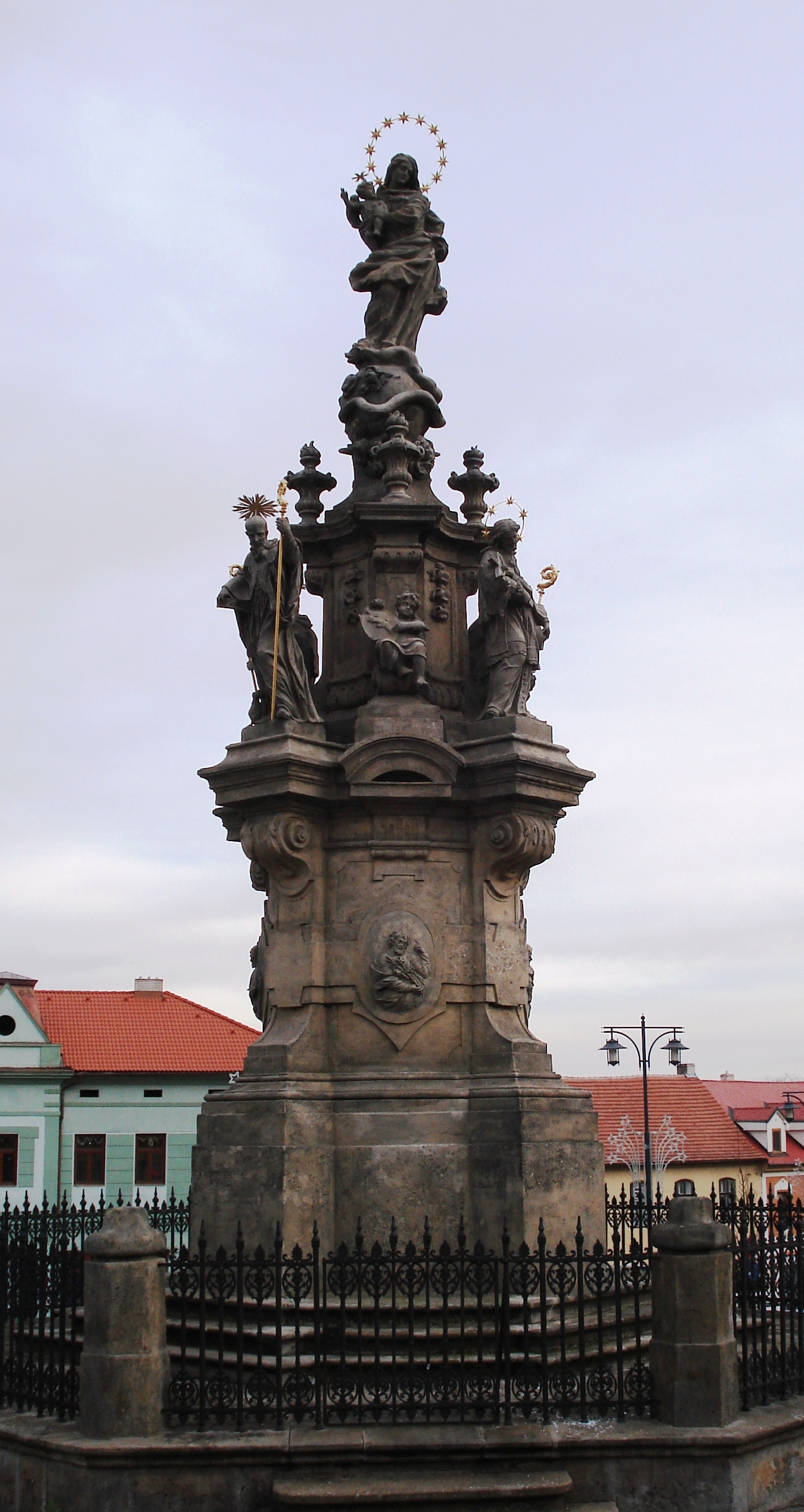 Marian column from 1741 in main square of Kladno. Work by sculptor Karl Joseph Hiernle and architect Kilian Ignaz Dientzenhofer.